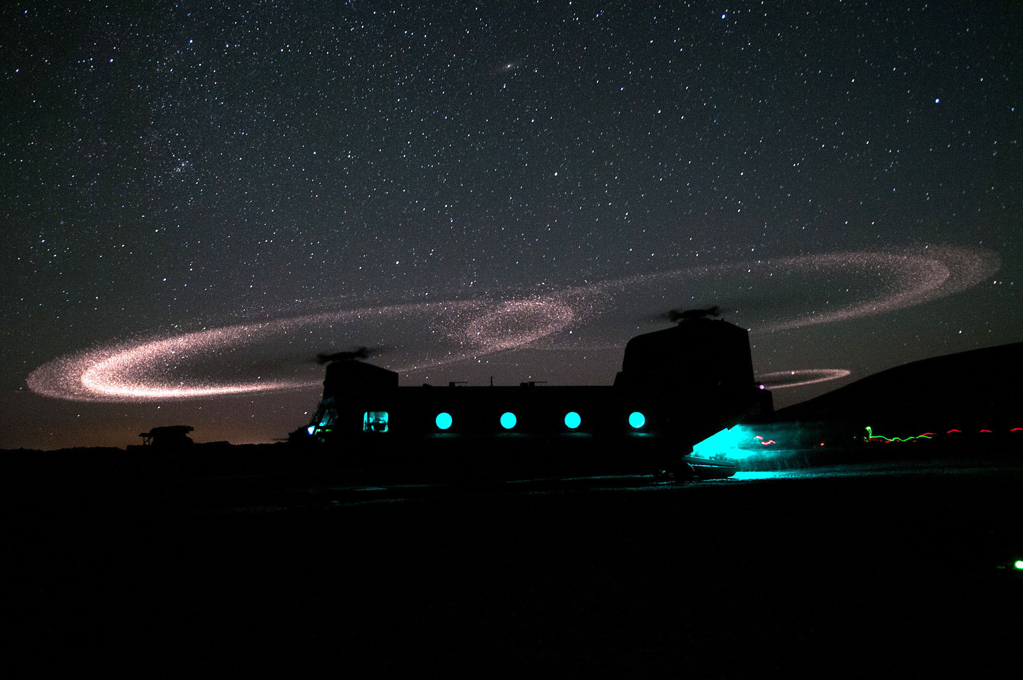 Dust lights up the rotors of a CH-47 Chinook helicopter as paratroopers with 3rd Squadron, 73rd Cavalry Regiment load for an air assault mission near Combat Outpost Ab Band May 23, 2012, Ghazni Province, Afghanistan. The unit is part of the 82nd Airborne Division’s 1st Brigade Combat Team, which deployed to the area in March to help bring security to the areas along the country’s main road between Kabul and Kandahar. (U.S. Army photo by Sgt. Michael J. MacLeod)